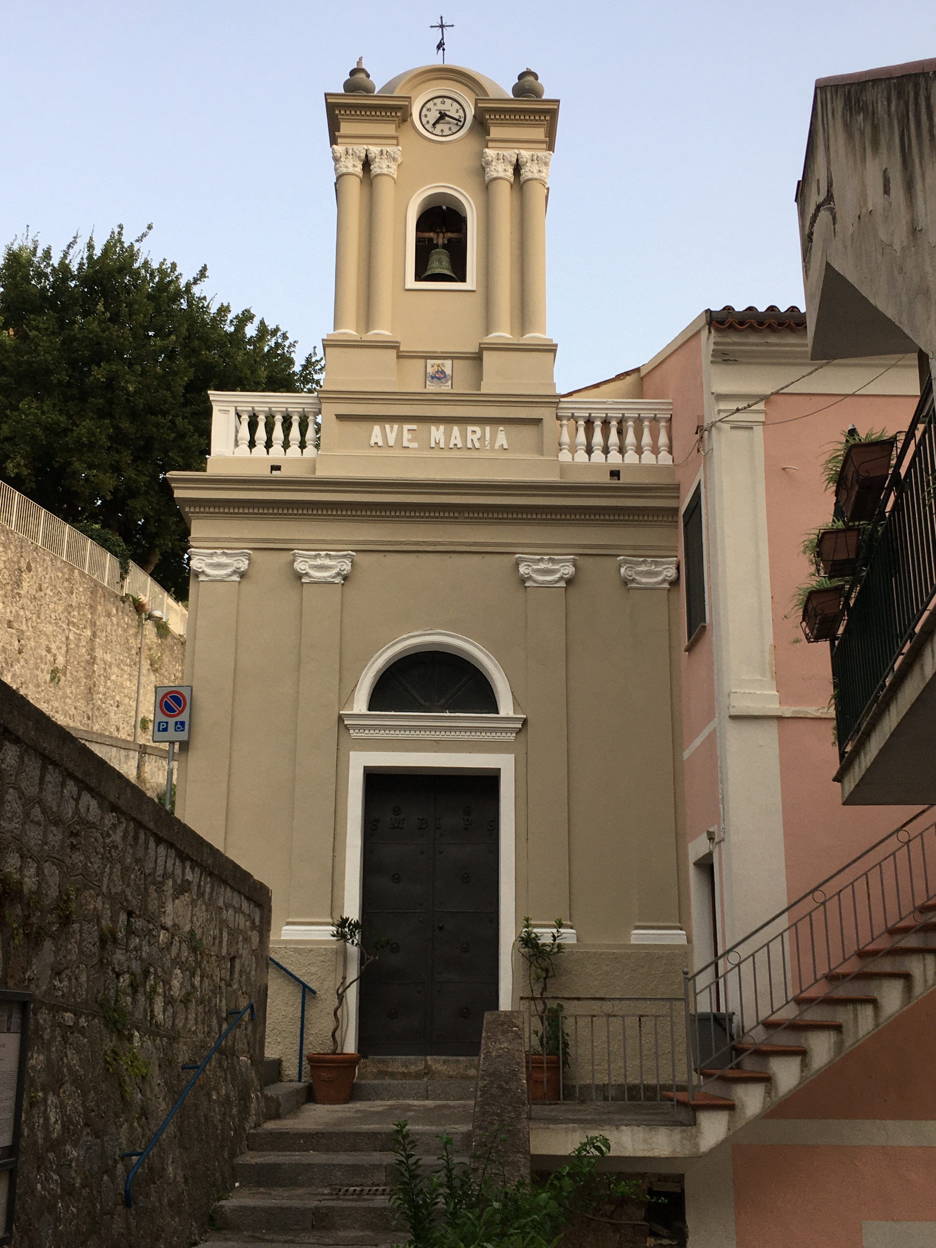 church of Porto